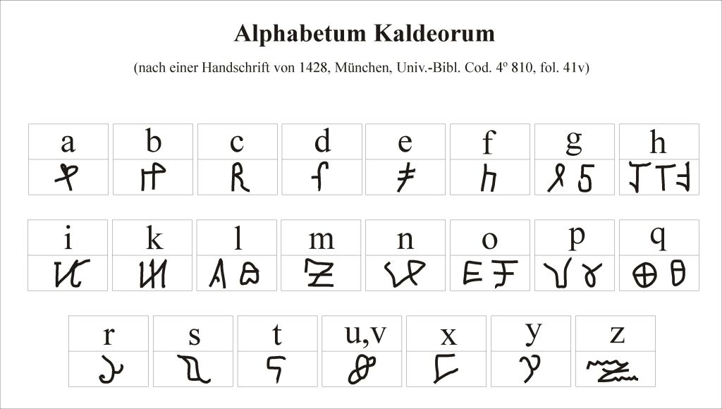 Layout of the Alphabetum Kaldeorum